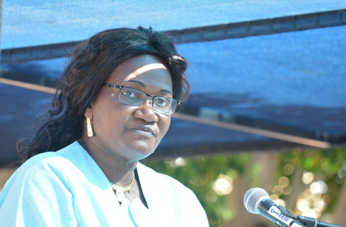 Murangi in 2016